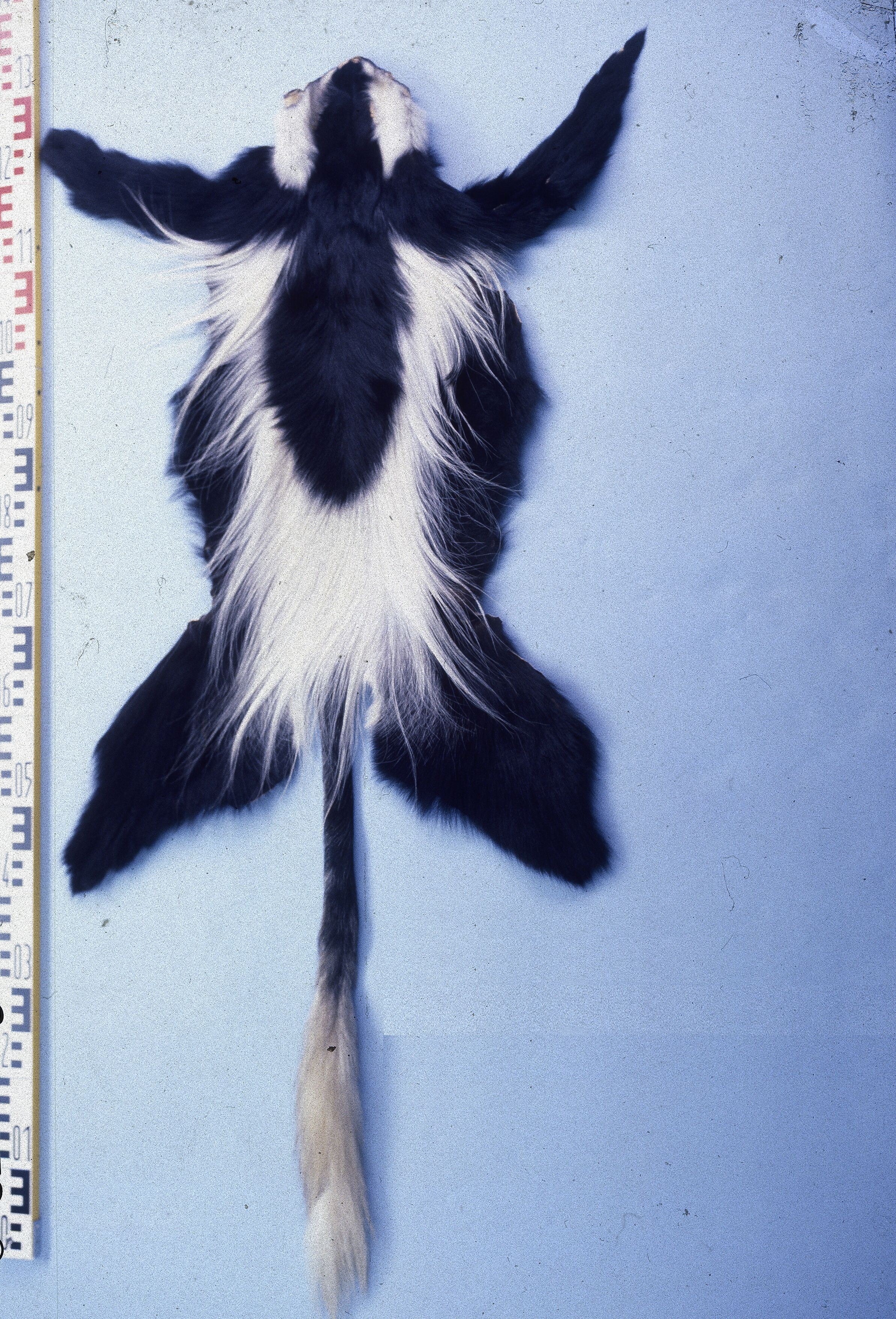 Black and white colobus (Colobus guereza). Fur skin collection, Bundes-Pelzfachschule, Frankfurt/Main, Germany